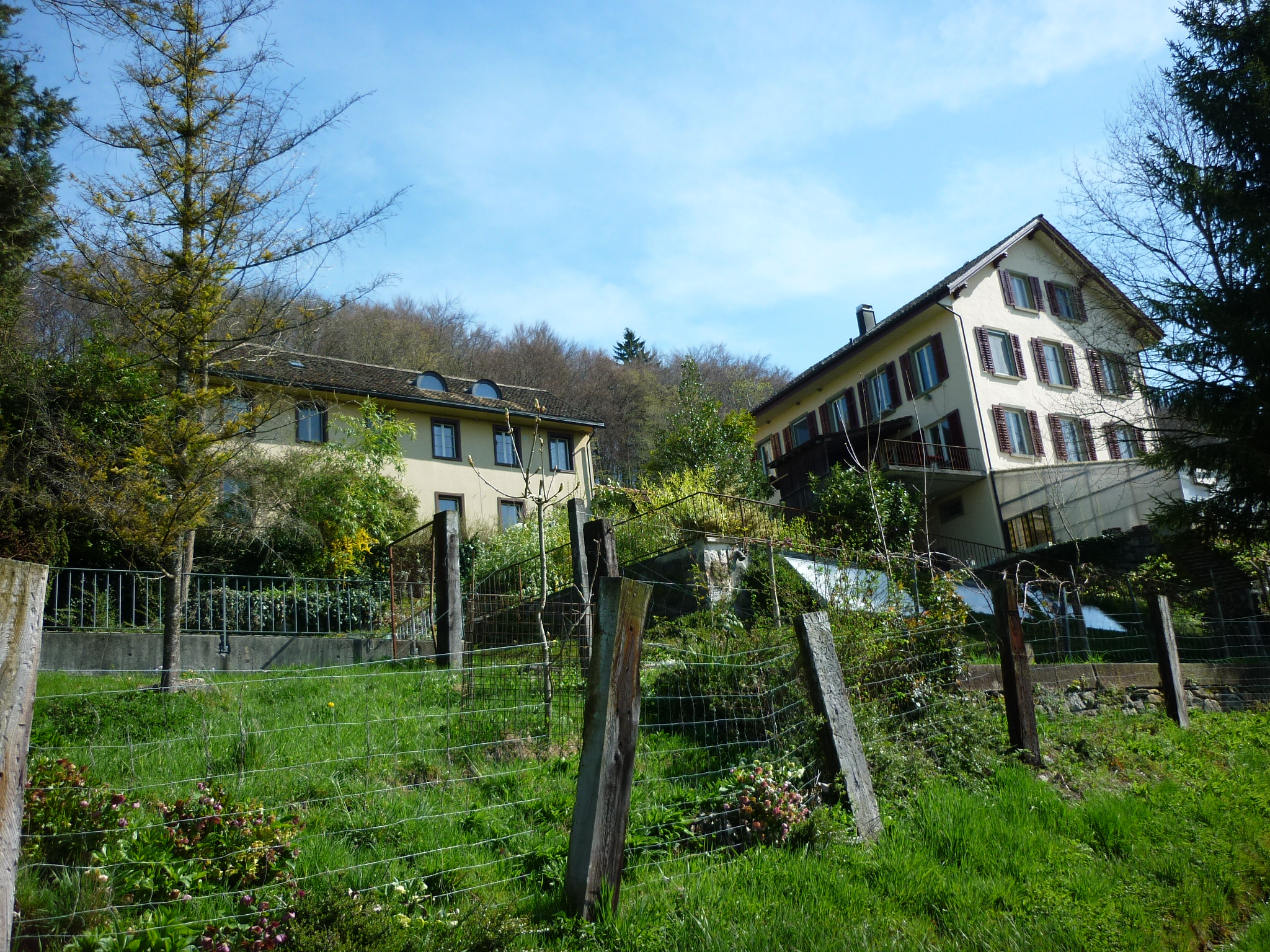 Wengi ZH, Switzerland